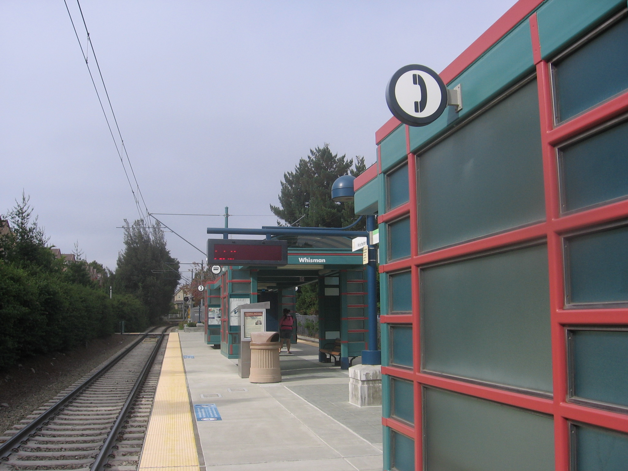 View along the platform at the Whisman (VTA) light rail station in Mountain View, California, USA.